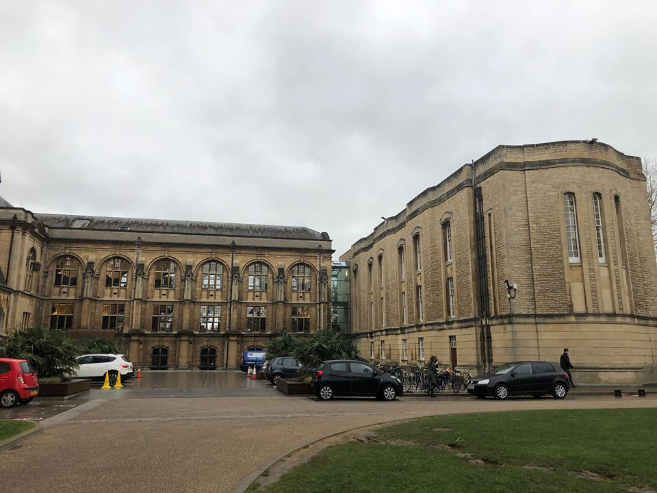 Radcliffe Science Library, Parks College, University of Oxford